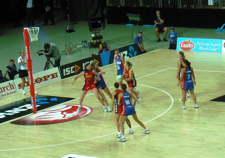 Tactix versus Mystics game: Anna Thompson (GS, Tactix) has possession of the ball inside the shooting circle.